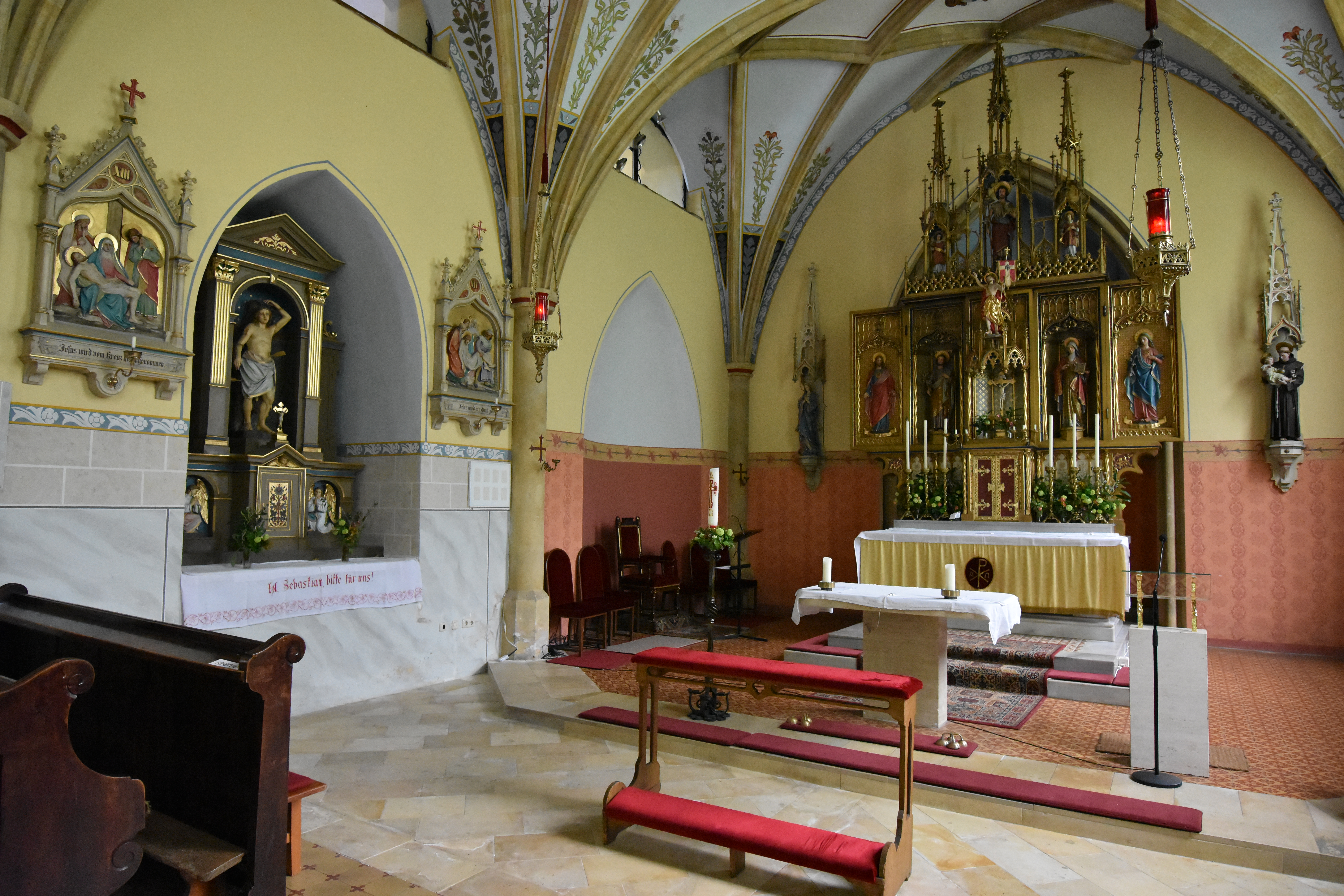 Church Schwanberg, Steiermark - Interior